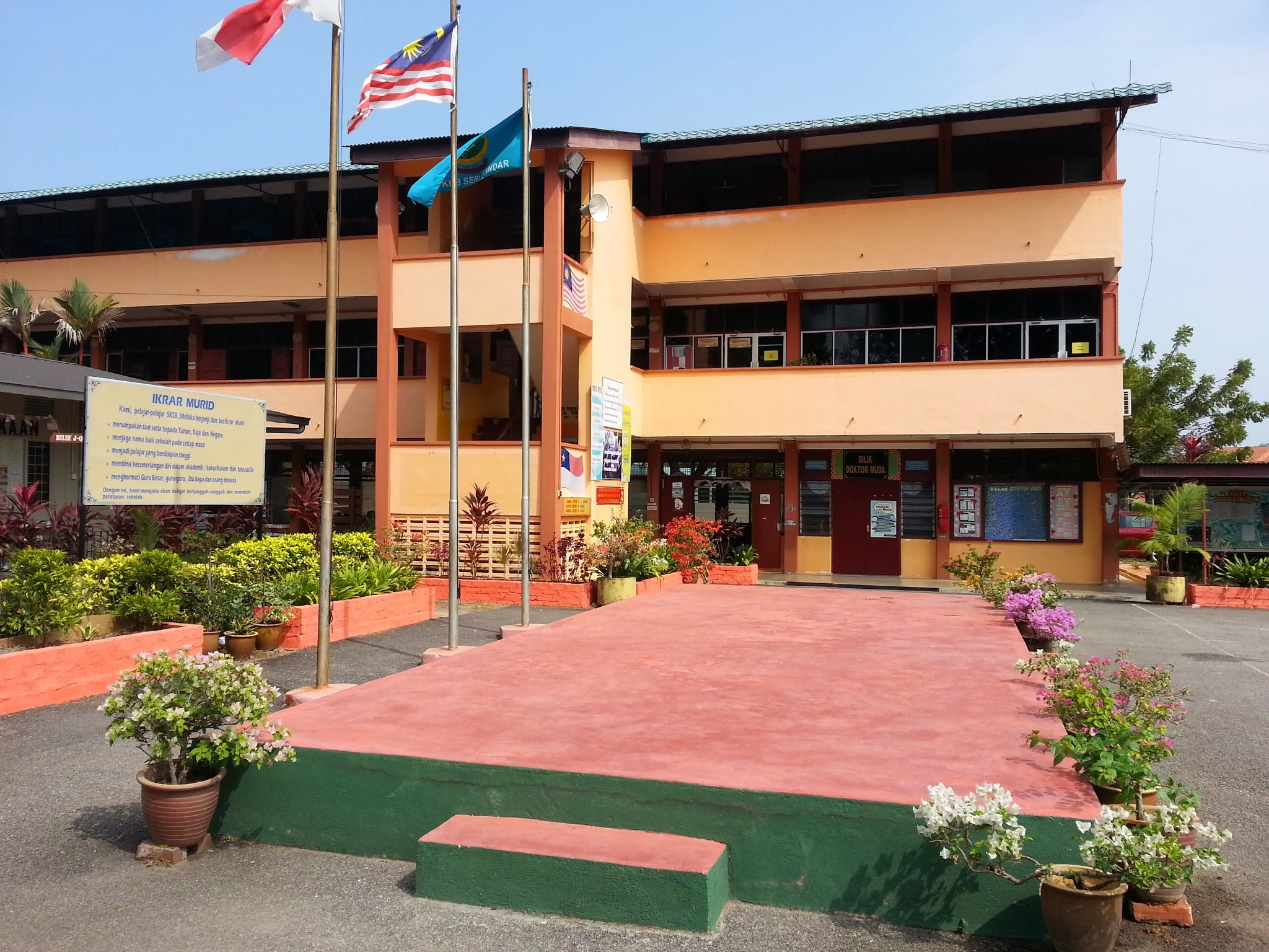 persekitaran sksb